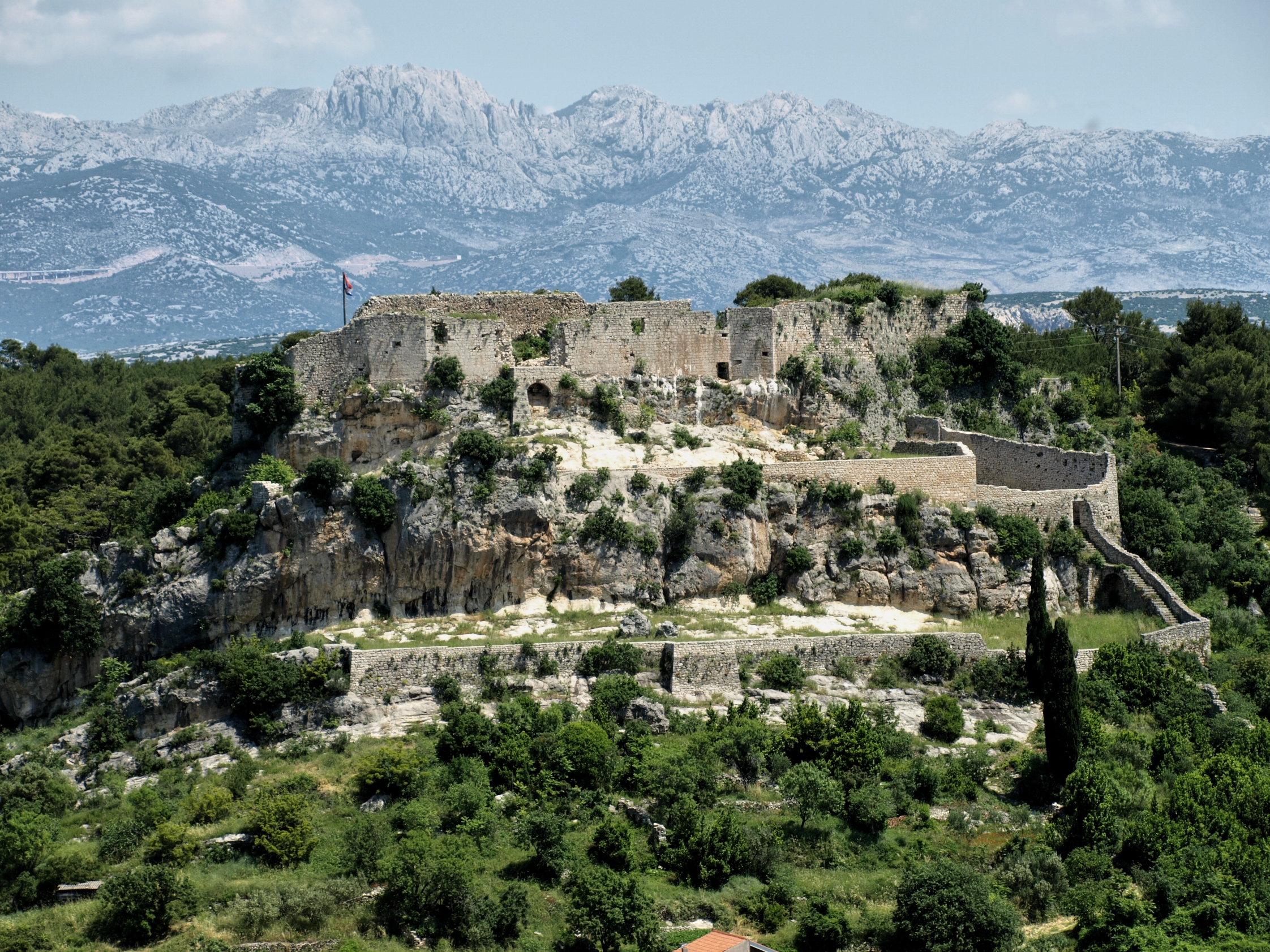 Cultural and history of Croatia